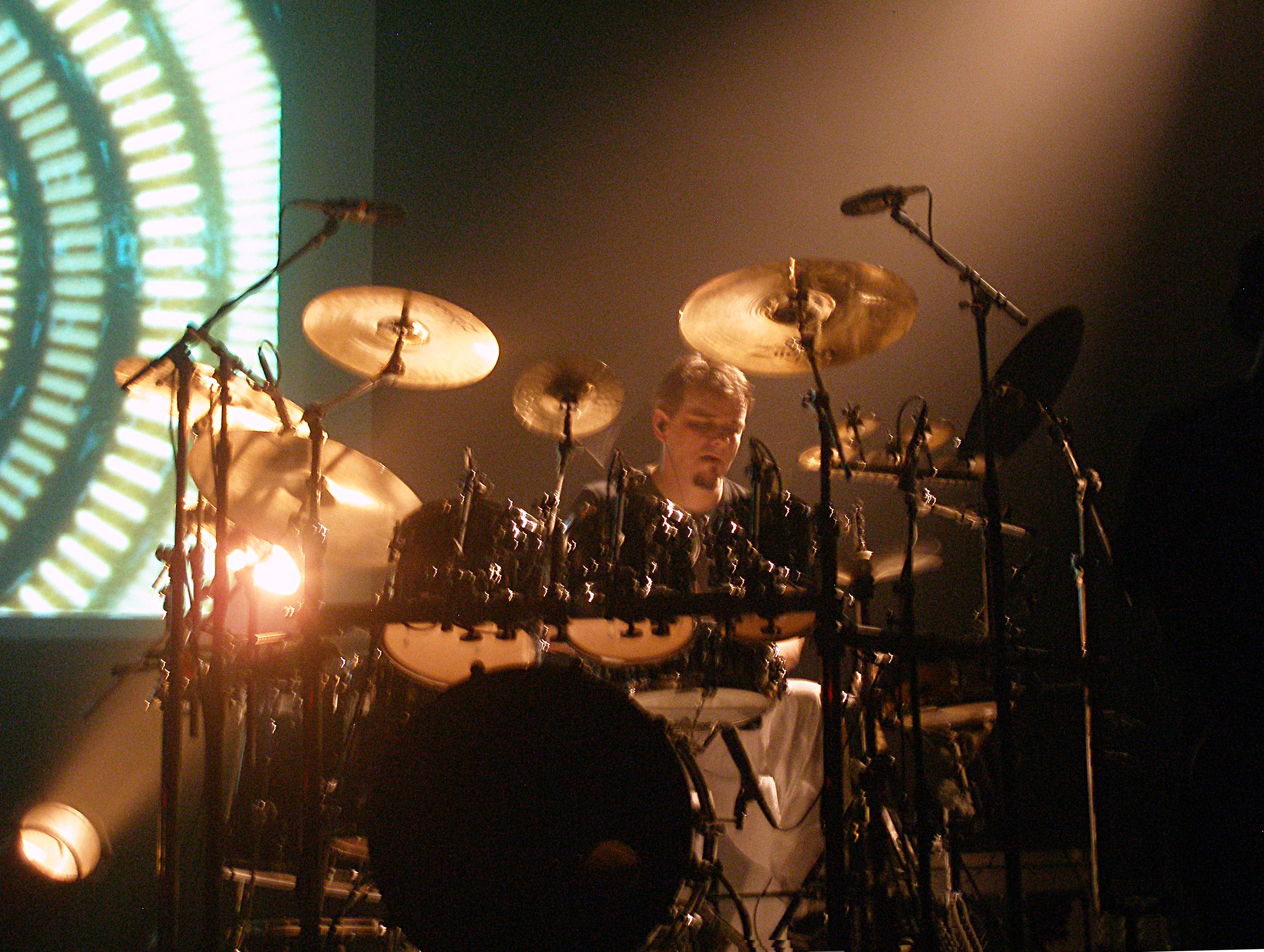 Gavin Harrison onstage in Atlantic City, NJ with Porcupine Tree - Oct. 2007